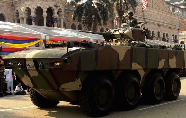 Cropped version of the Malaysian Armed Forces' Gempita AV8 Armoured Vehicle. Original phot by user Rizuan